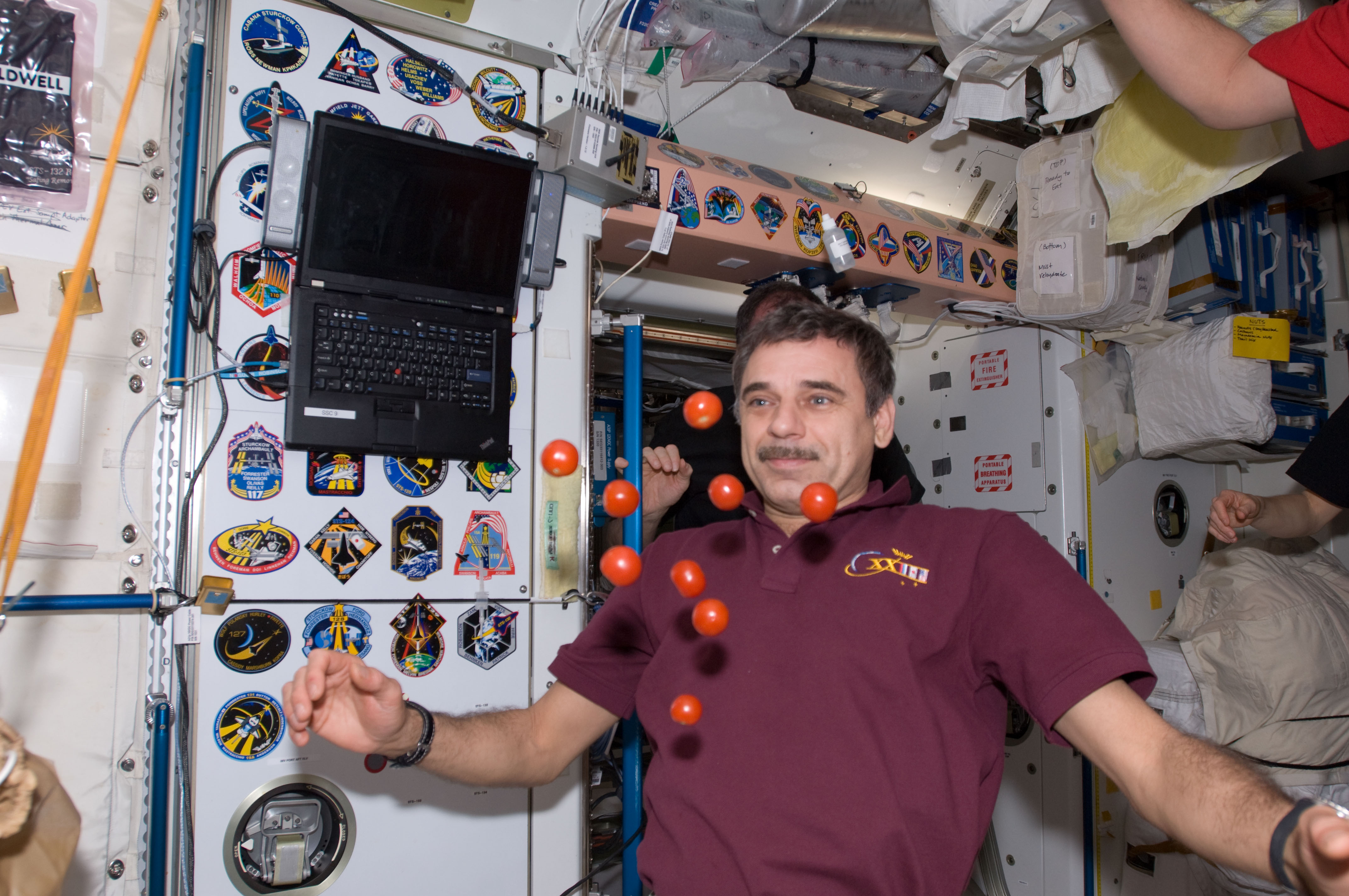 Russian cosmonaut Mikhail Kornienko, Expedition 23 flight engineer, is pictured near fresh tomatoes floating freely in the Unity node of the International Space Station while space shuttle Atlantis (STS-132) remains docked with the station.